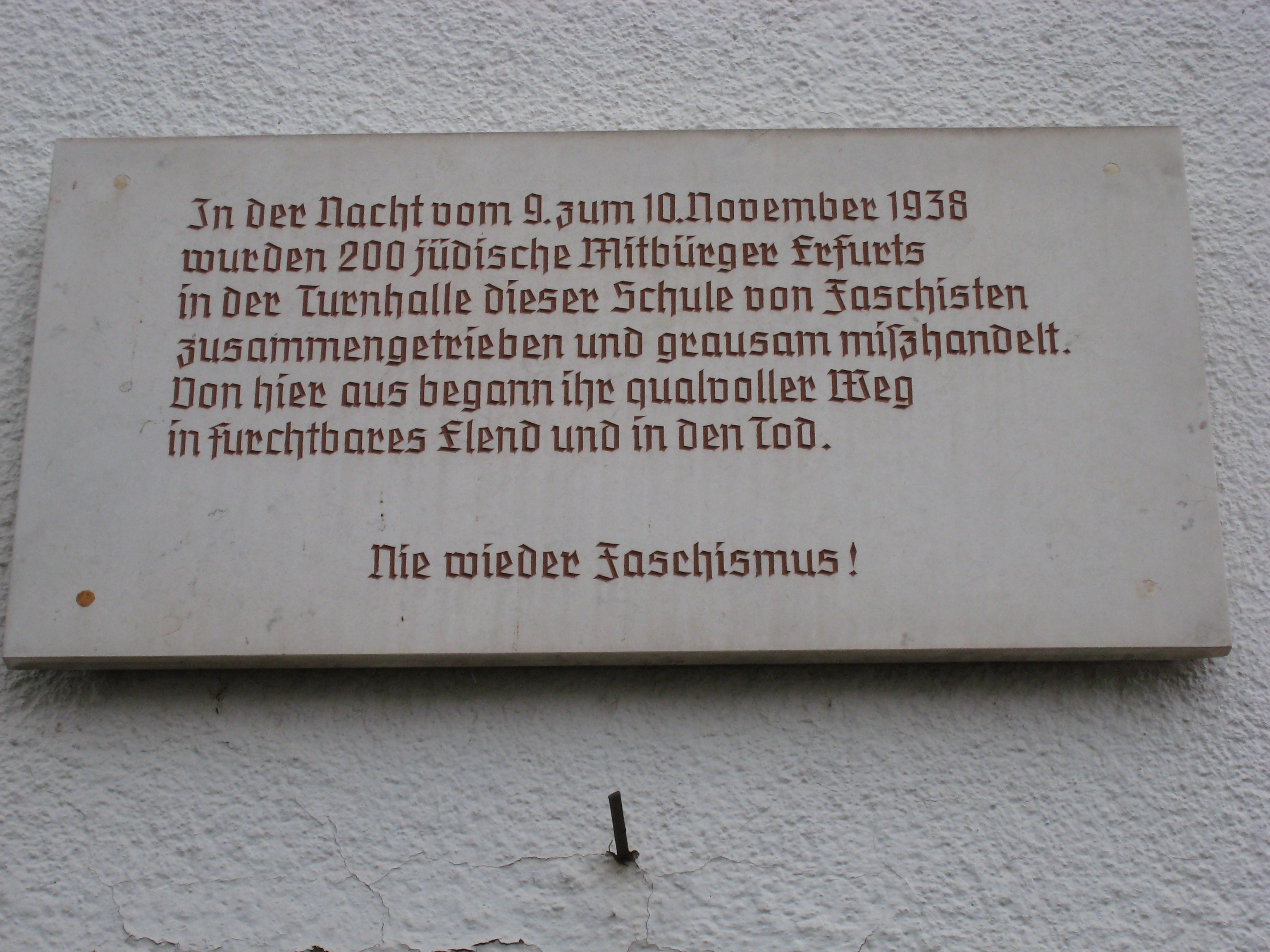 Memorial plate at Humboldt elementary school, Erfurt, Juri-Gagarin-Ring 126